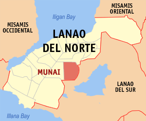 Map of the Lanao del Norte showing the location of Munai